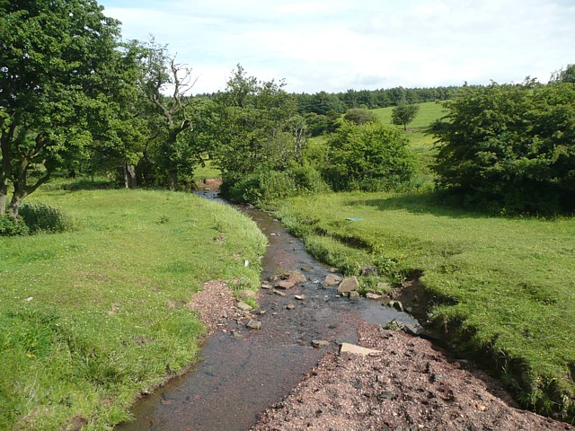 Holme Beck, Scholebrook Lane, Tong The reddish shale is probably from spoil heaps for the disused Charles Pit upstream.